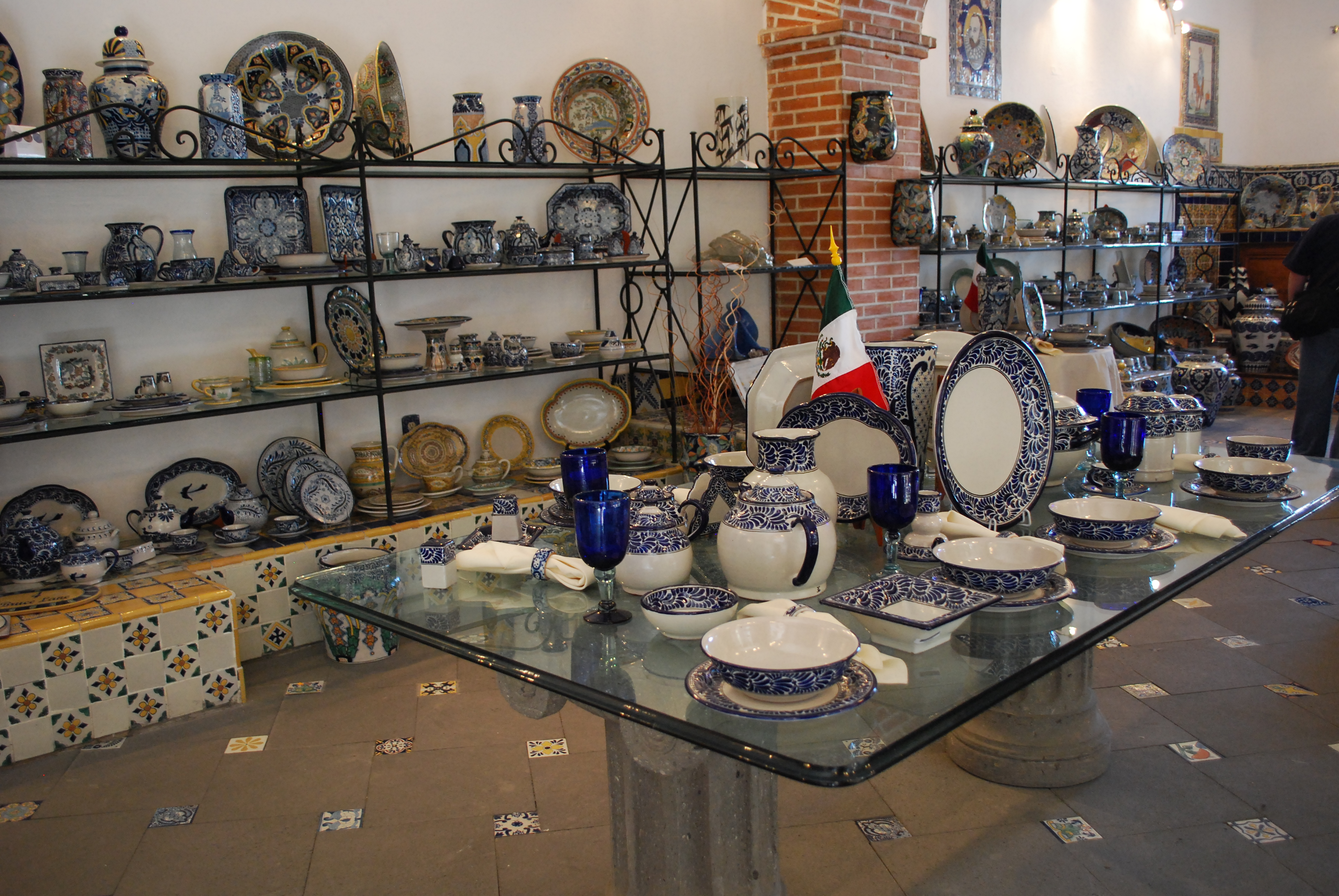 One of the display rooms at the Uriarte Talavera workshop in Puebla, Mexico